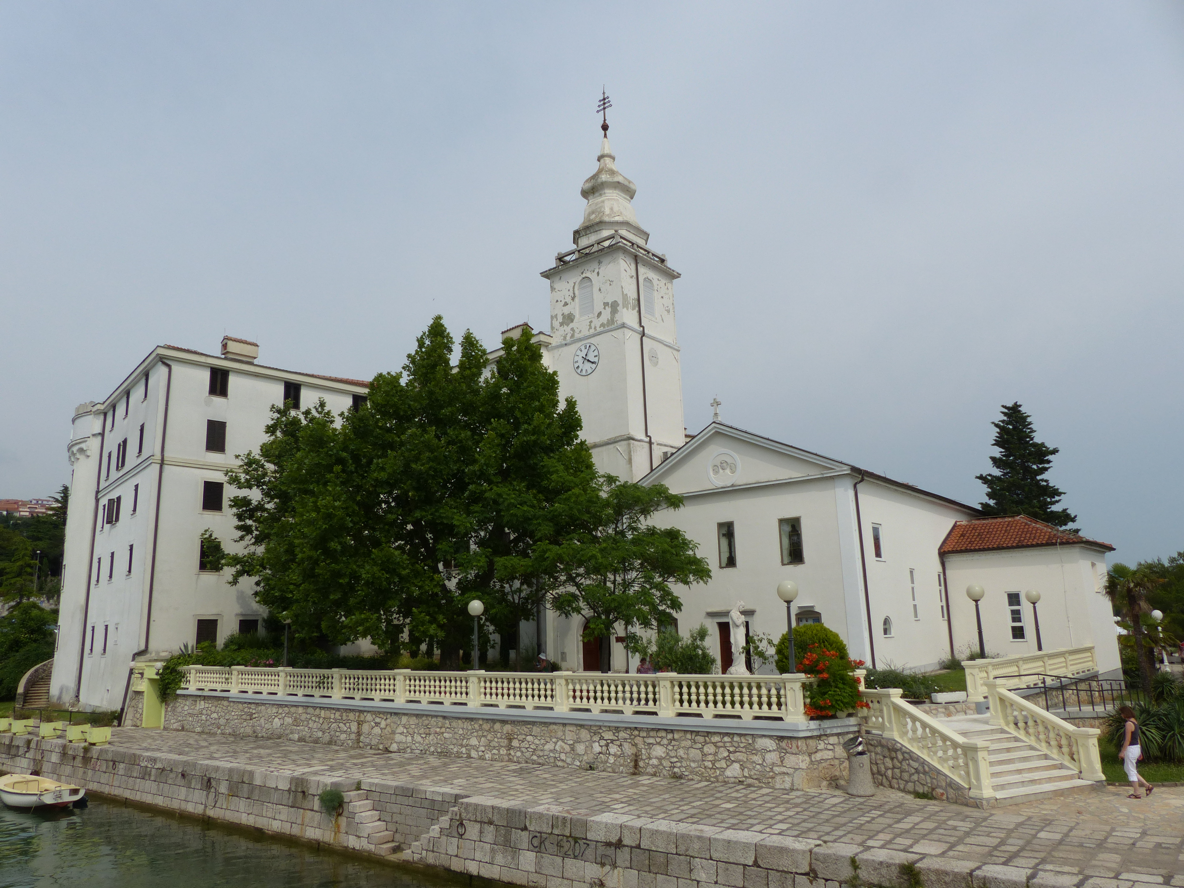 Crkva Uznesenja Blažene Djevice Marije, Crikvenica, Croatia. Built in 1412 by Frangepán Miklós (nominated as bán, by the Hungarian King in the period 1426-1432) as a monastery for the Pauline order, the only Christian order established by Hungarians -- Ordo Fratrum Sancti Pauli Primi Eremitae. The Pauline Order possessed the monastery until 1786, when it was abolished. From that time it was the seat of the Vinodoli Captaincy. Tags: Pauline Order (Hungary), Ordo Fratrum Sancti Pauli Primi Eremitae Miklós Fragepán Zsigmond Luxemburgi Dubračina Vinodoly Captaincy